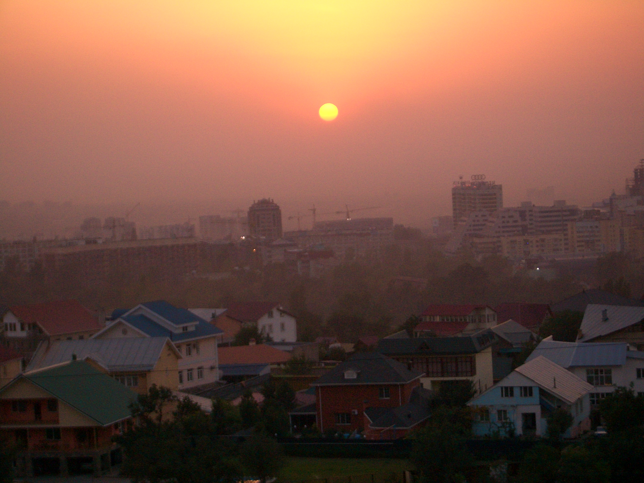 A smoggy sunnset over Almaty, seen from Kok Tobe